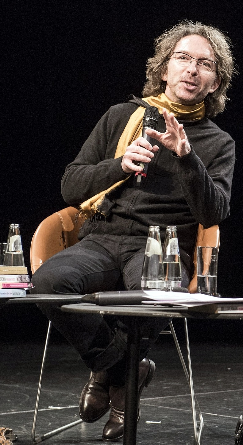 Prof. Dr. Mark Stein (Uni Münster, Germany) 26JAN2017, Werkstatt der Kulturen, Berlin photographer: R.Fischer-Dieskau ©British Council